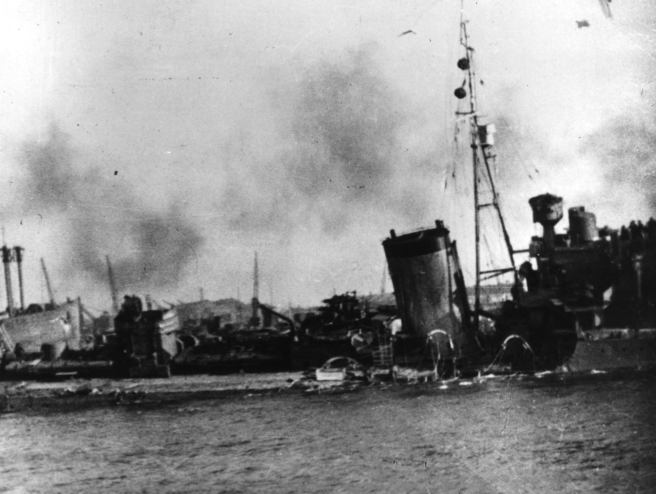 This photograph shows the remains of the H.M.S. Kelly arriving on the River Tyne following its severe Torpedo incident Reference: 2931-Unlisted This image is taken from an album produced by the world famous shipbuilding and engineering firm of Hawthorn Leslie. The album gives us a fascinating glimpse of life at the company's shipyard at Hebburn from the late 1930s to the 1960s. There are remarkable images of the men at work in the yard and a poignant series showing the terrible damage caused during the Second World War to HMS Kelly, one of Hawthorn Leslie's best loved ships. This particular collection of images follows the Birth and ultimate Death of a ship. From the craft and pride in its production and the joy in its performance, to the devastation and price of its destruction. A blog about this fascinating collection can been viewed on the Tyne & Wear Archives & Museums website. (Copyright) We're happy for you to share these digital images within the spirit of The Commons. Please cite 'Tyne & Wear Archives & Museums' when reusing. Certain restrictions on high quality reproductions and commercial use of the original physical version apply though; if you're unsure please